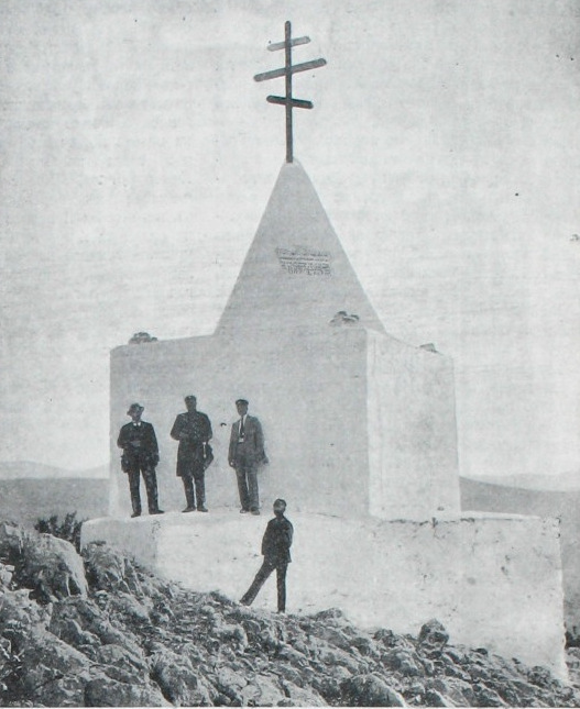 Babina glava peam monument